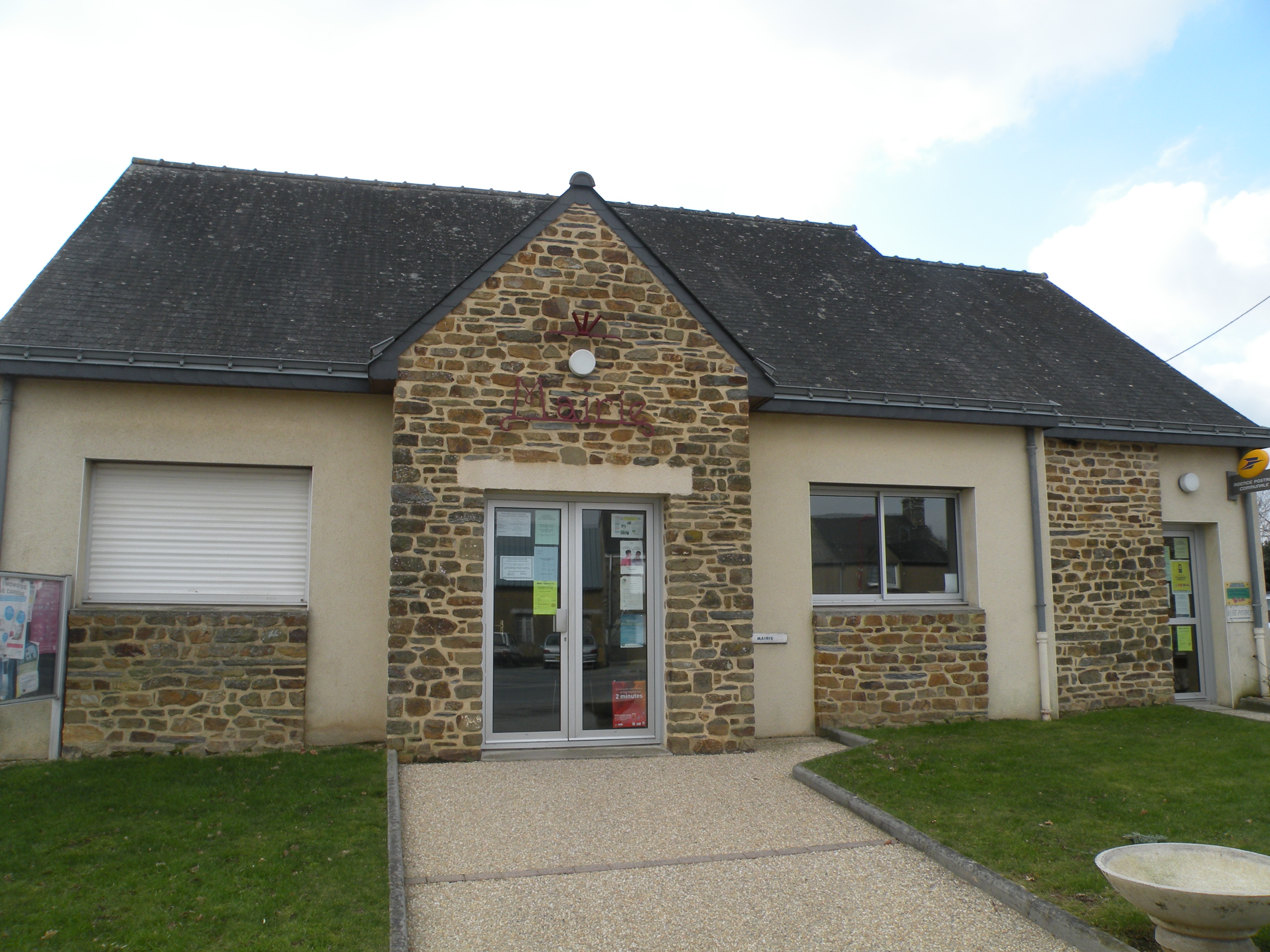 Town hall of Saint-Séglin.